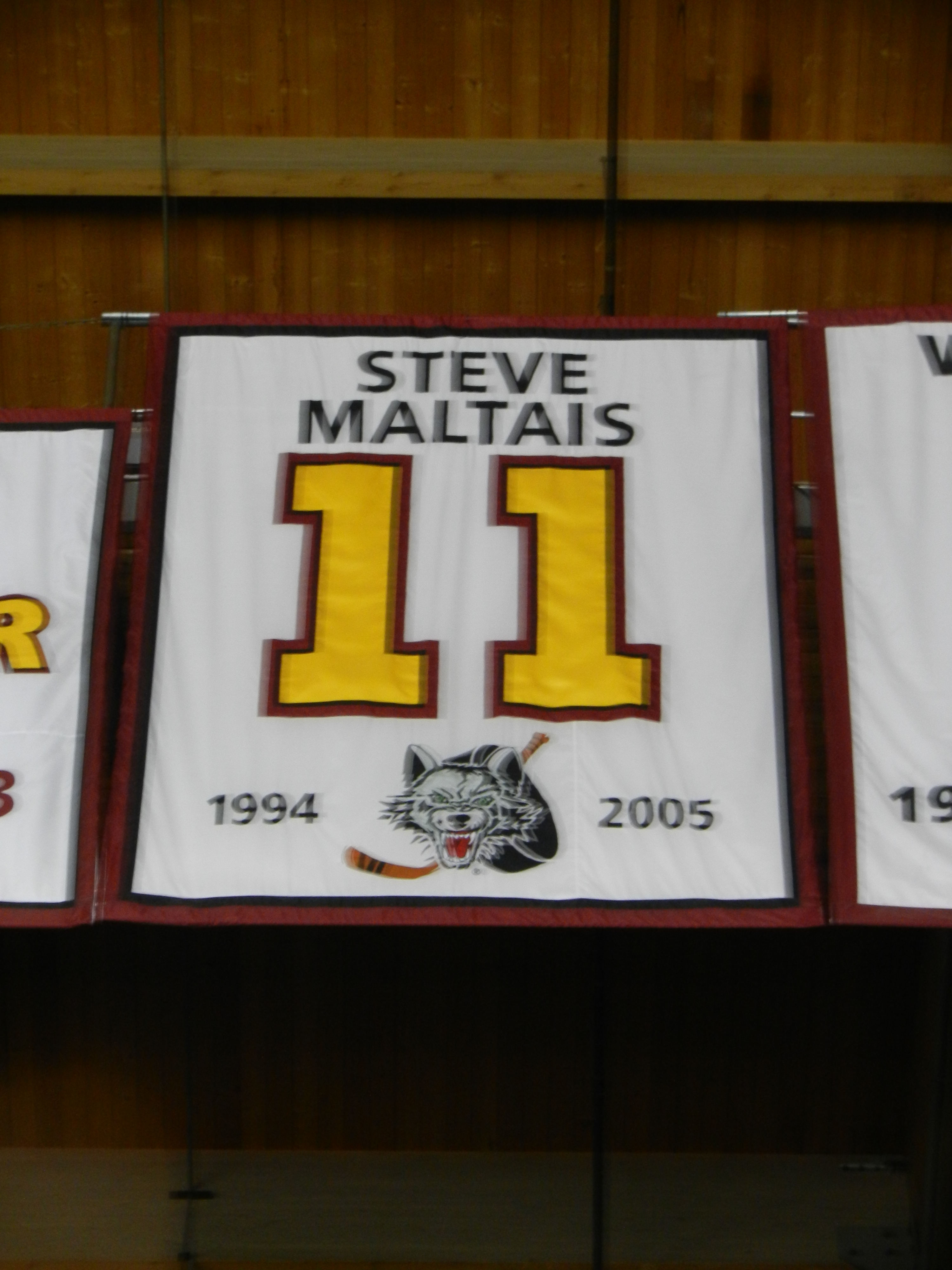 Steve Maltais' retired #11 Banner hanging in the Allstate arena.